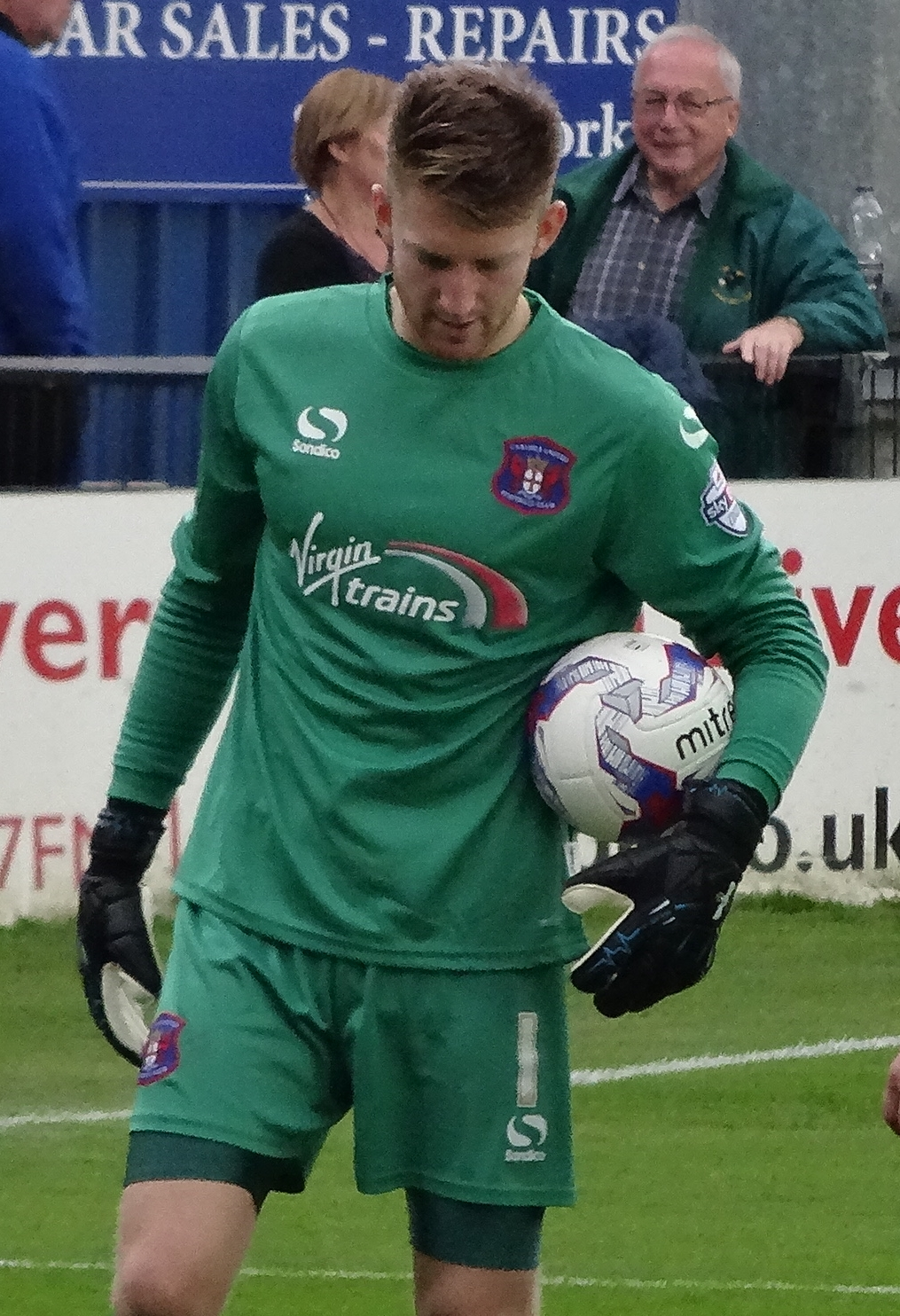 Mark Gillespie playing for Carlisle United against York City at Bootham Crescent, York on 19 September 2015